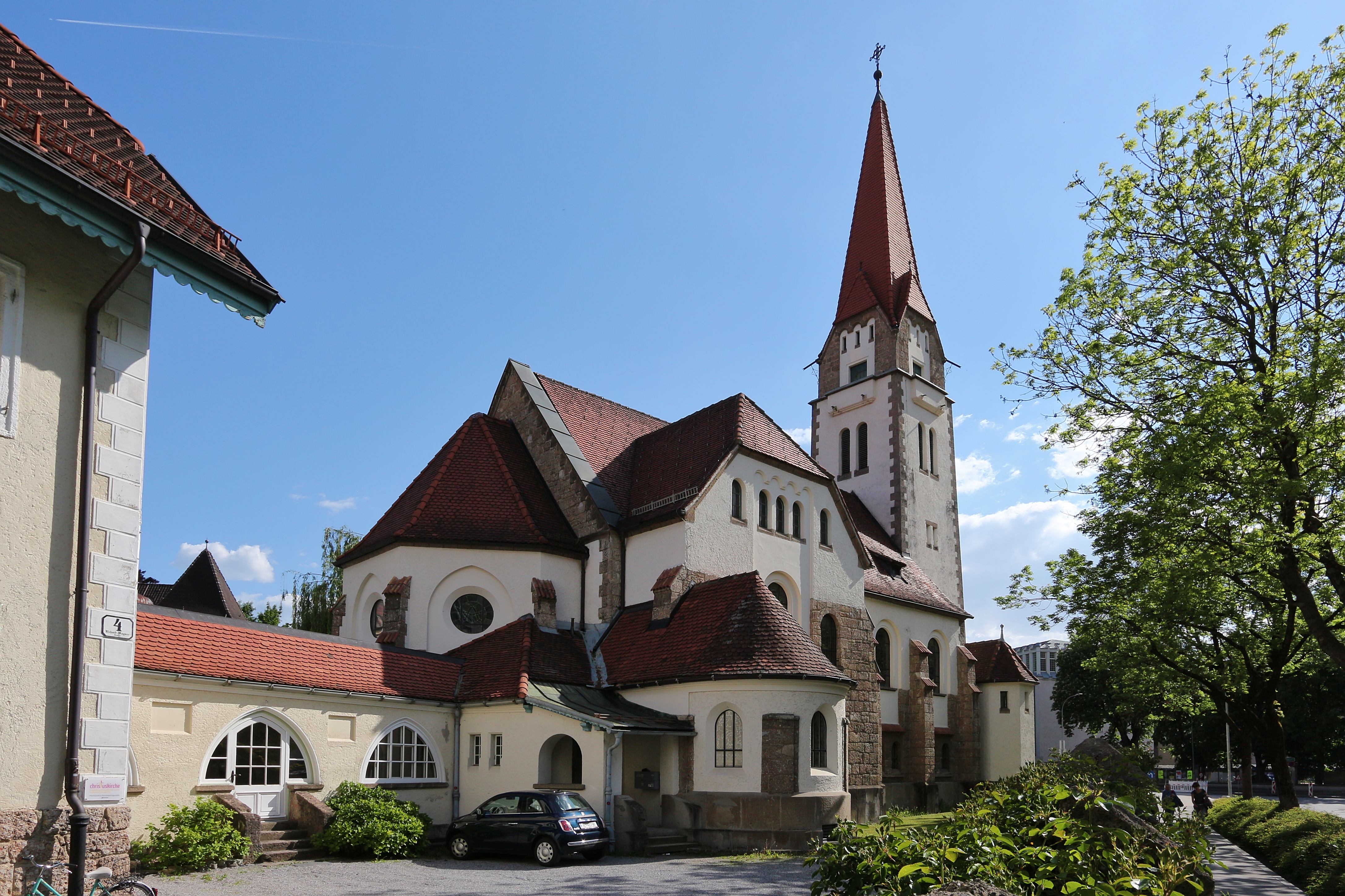 Christuskirche Innsbruck